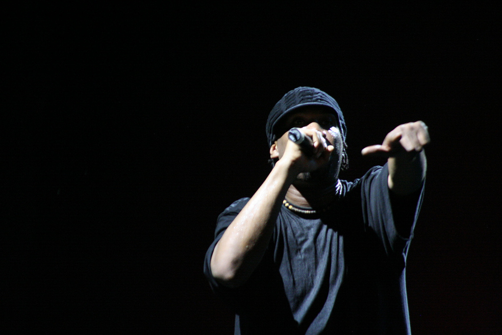 KRS-One performing in 2007.KRS-ONE